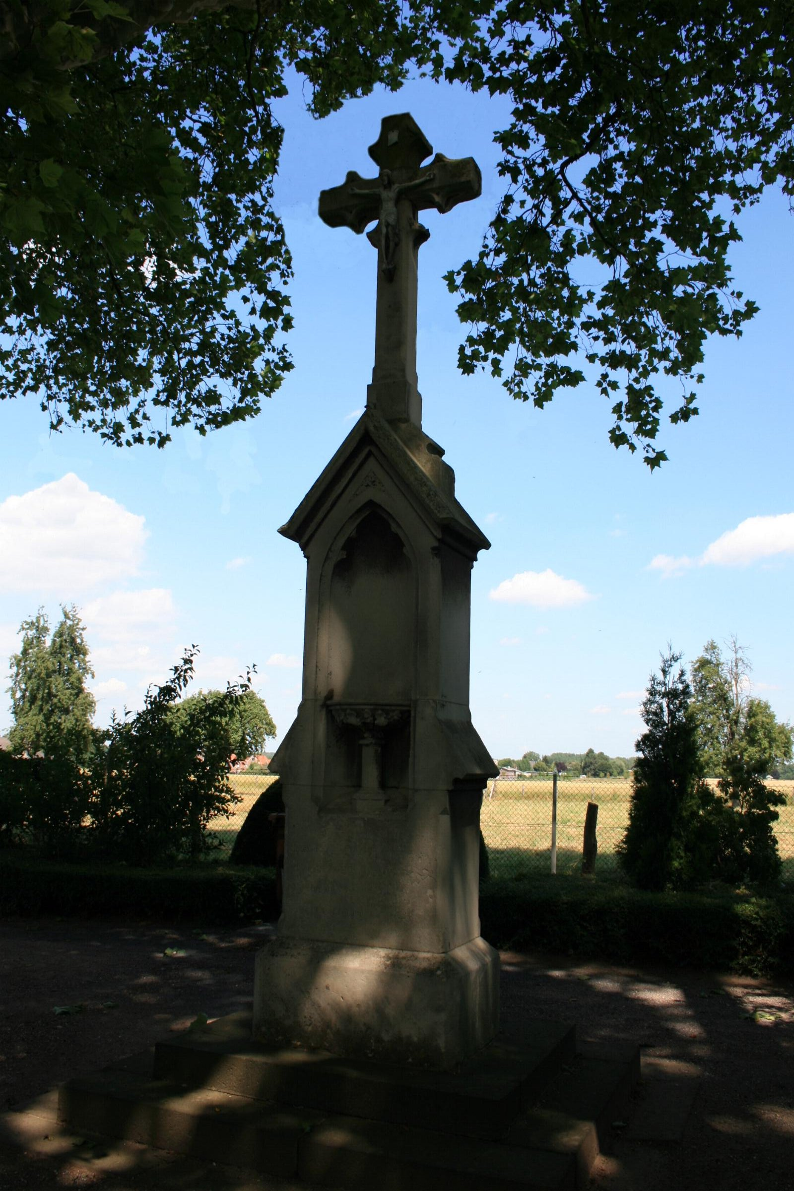 Cultural heritage monument No. H 089 in Mönchengladbach